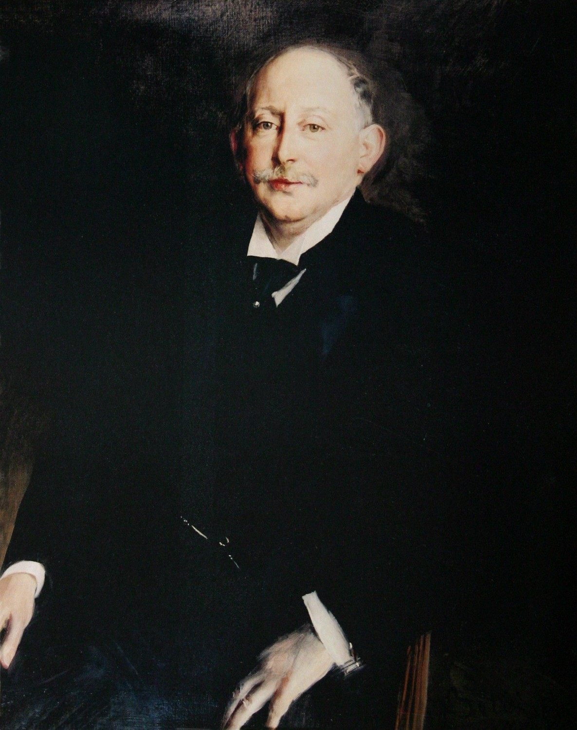 Portrait of Alfred Beit (1853-1906) - Oil on canvas